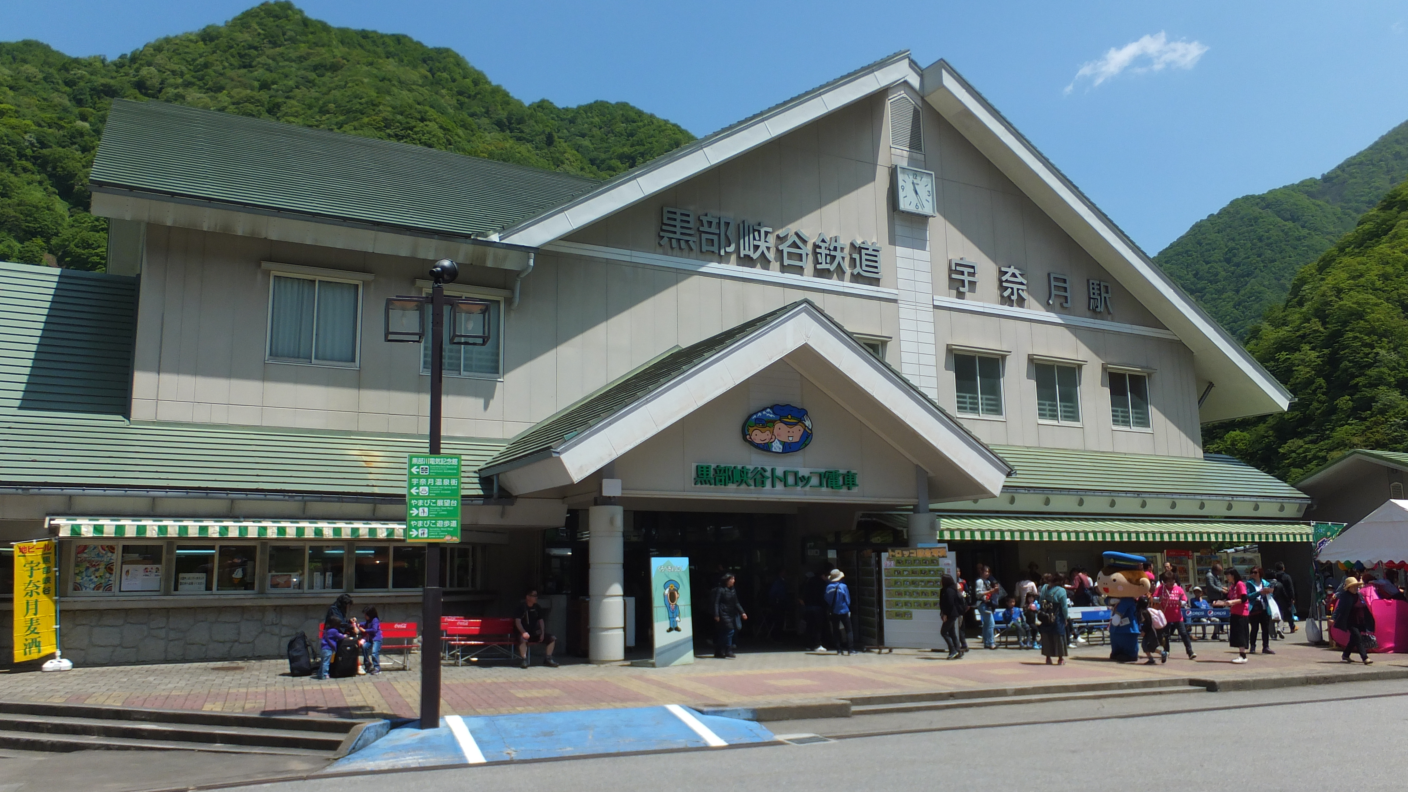 Unazuki Station operated by Kurobe Gorge Railway in Kurobe City, Japan